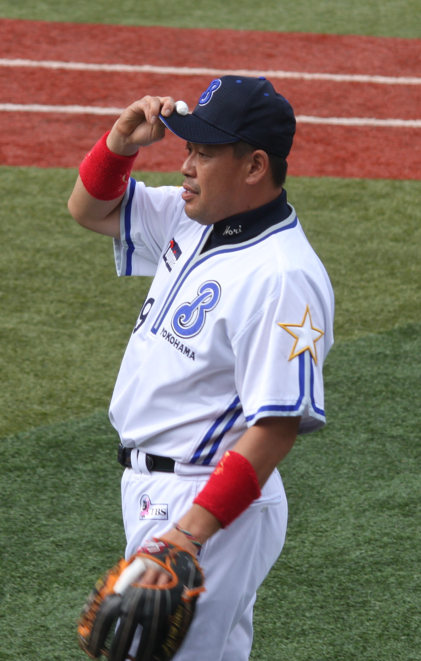 Norihiro Nakamura, infielder of the Yokohama BayStars, at Yokohama Stadium.